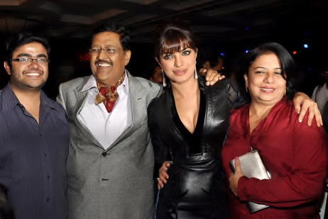 Priyanka Chopra with her family in 2012